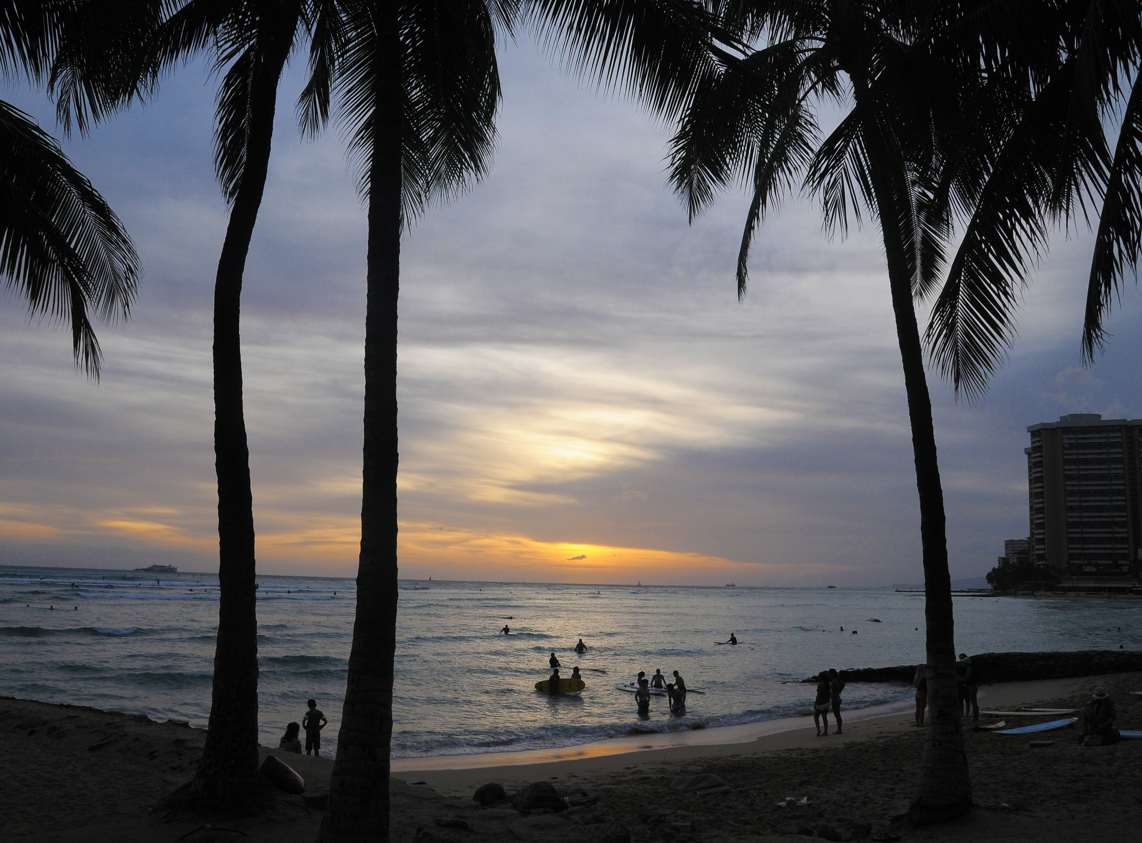 Waikiki Beach, Oahu at sunset when surfers still wait to catch the last wave before dark. Directions in Oahu Trailblazer guide.